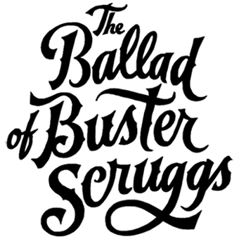 Logo for "The Ballad of Buster Scruggs"